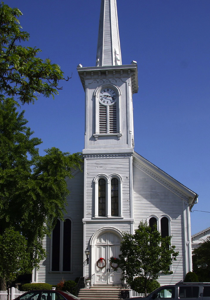 A church on Main Street in Babylon Village